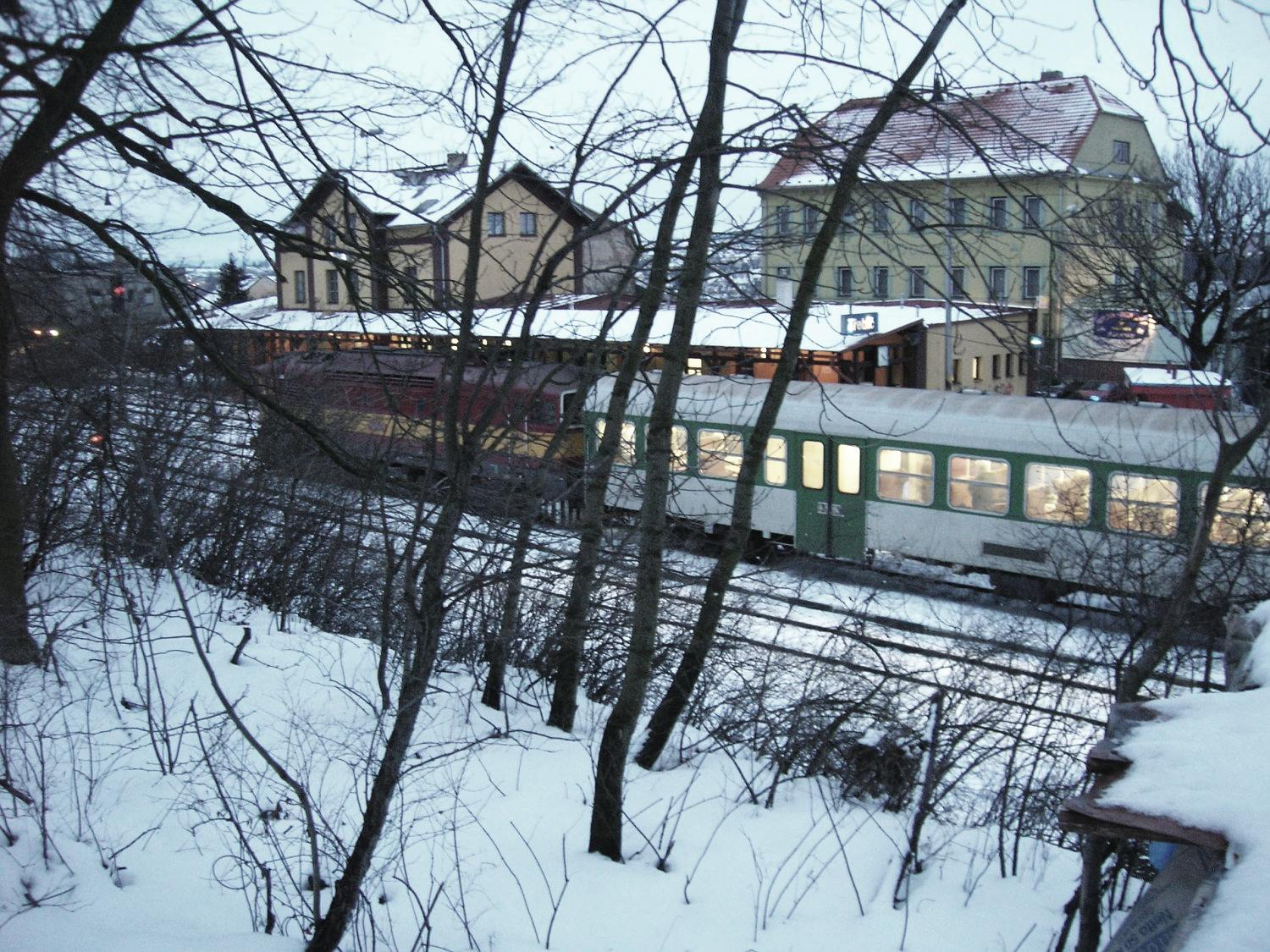 Train Station in Třebíč